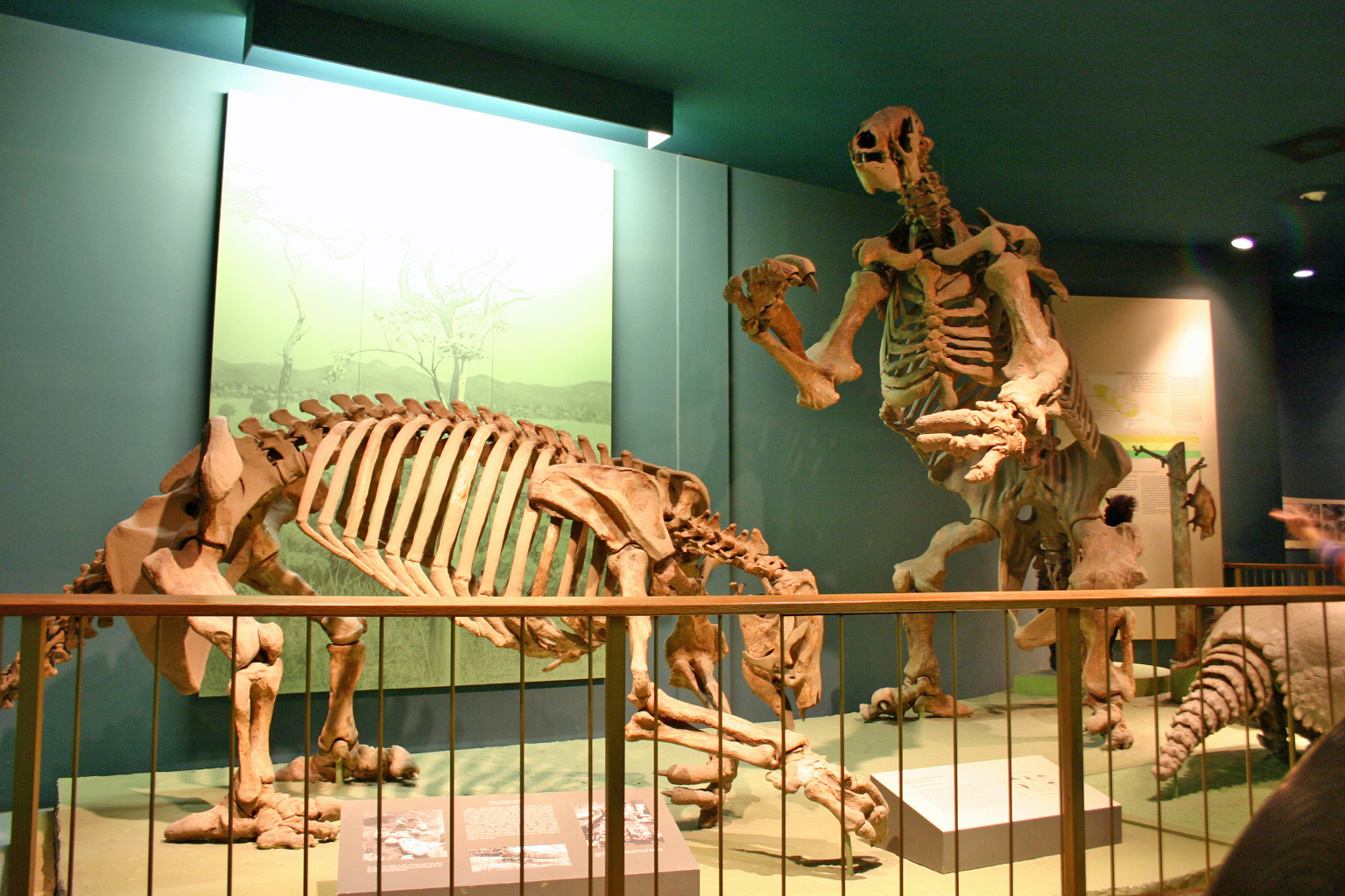 Eremotherium laurillardi exhibited in Smithsonian National Museum of Natural History